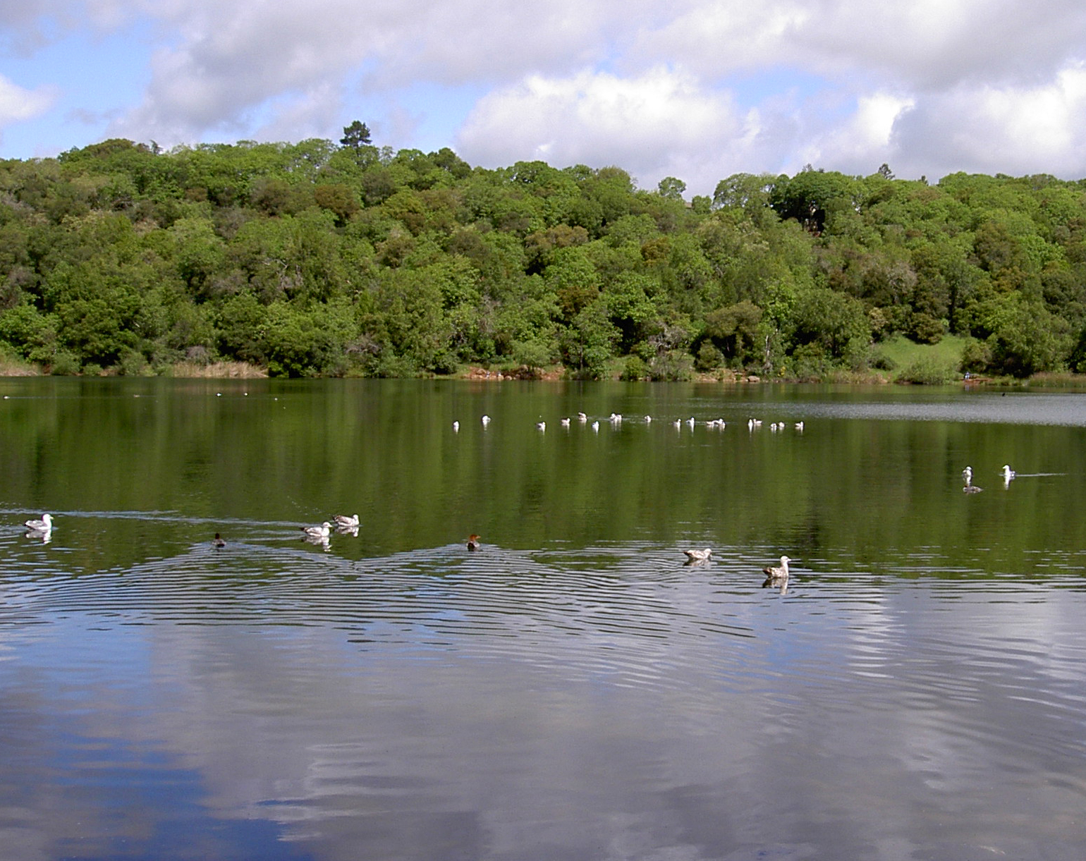 Lake Ralphine in Howarth Memorial Park, Santa Rosa, Califronia, USA, seen from cropped